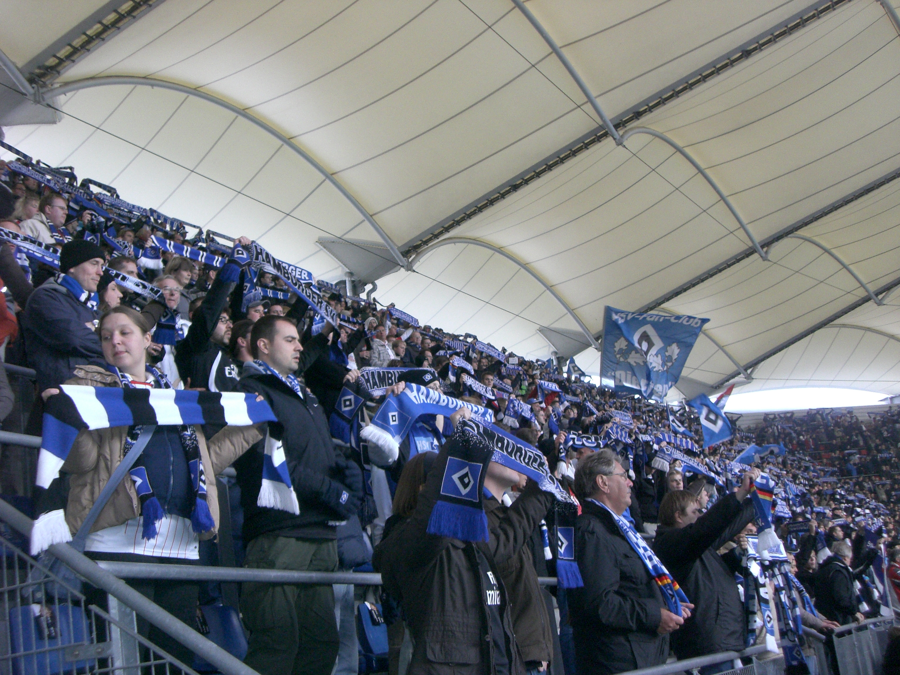 North Stand in the Volksparkstadion, home of Hamburger SV